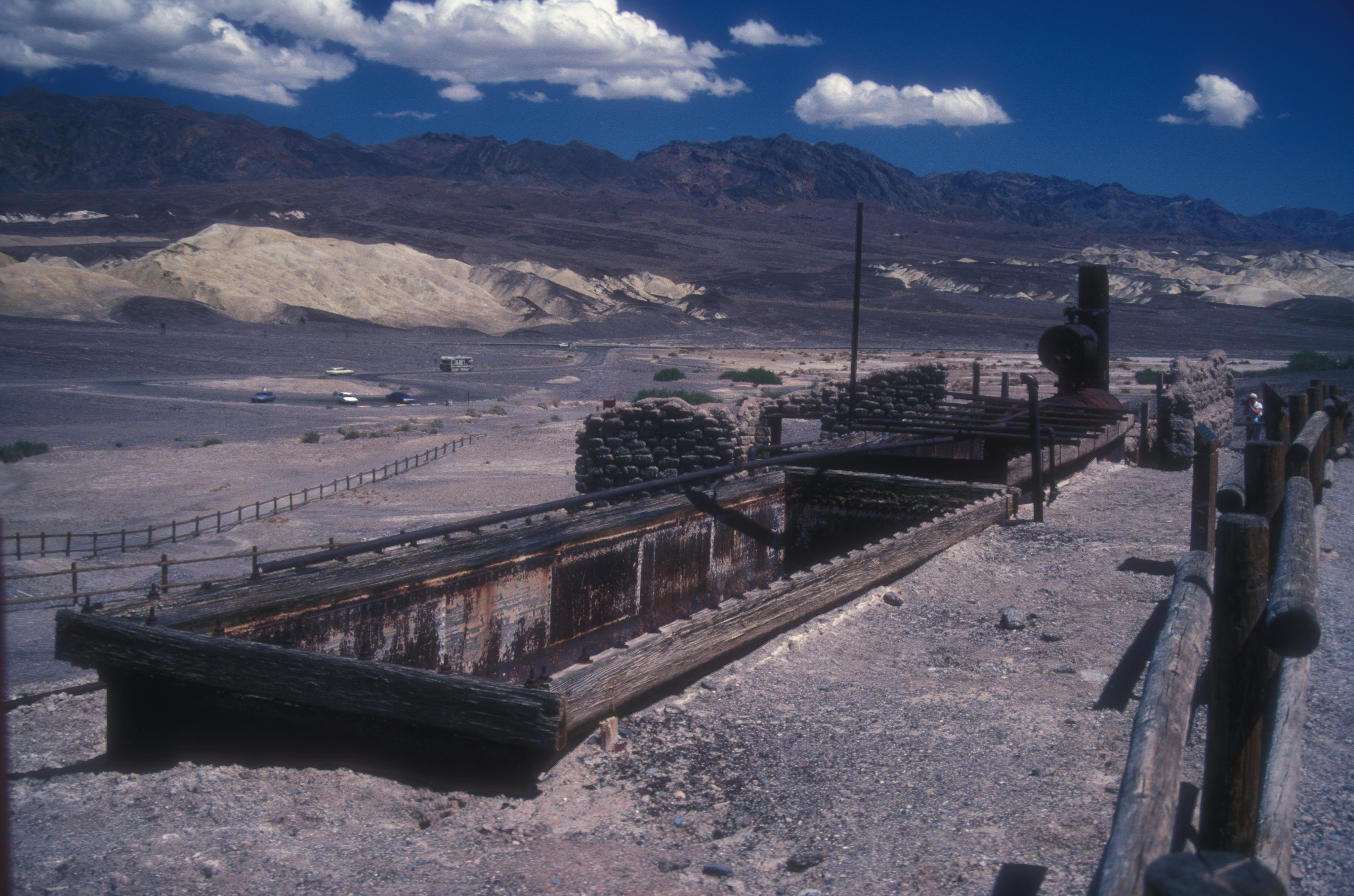 HARMONY BORAX WORKS - STARTED BY WILLIAM T. COLEMAN AND LATER RUN BY FRANCIS MARION "BORAX" SMITH; BORAX IS A BORATE COMPOUND FORMED BY VOLCANIC ACTION. IT IS USED IN THE GLASS INDUSTRY, PORCELAIN ENAMEL, SOAP & DETERGENTS, FERTILIZERS, CERAMICS, COSMETICS, BUILDING MATERIALS, FIRE RETARDANTS, ANTIFREEZE, AND HEAT SHIELDS FOR NUCLEAR REACTORS. VIEW OF THE OPERATING PLANT WHICH EXTRACTED THE BORAX